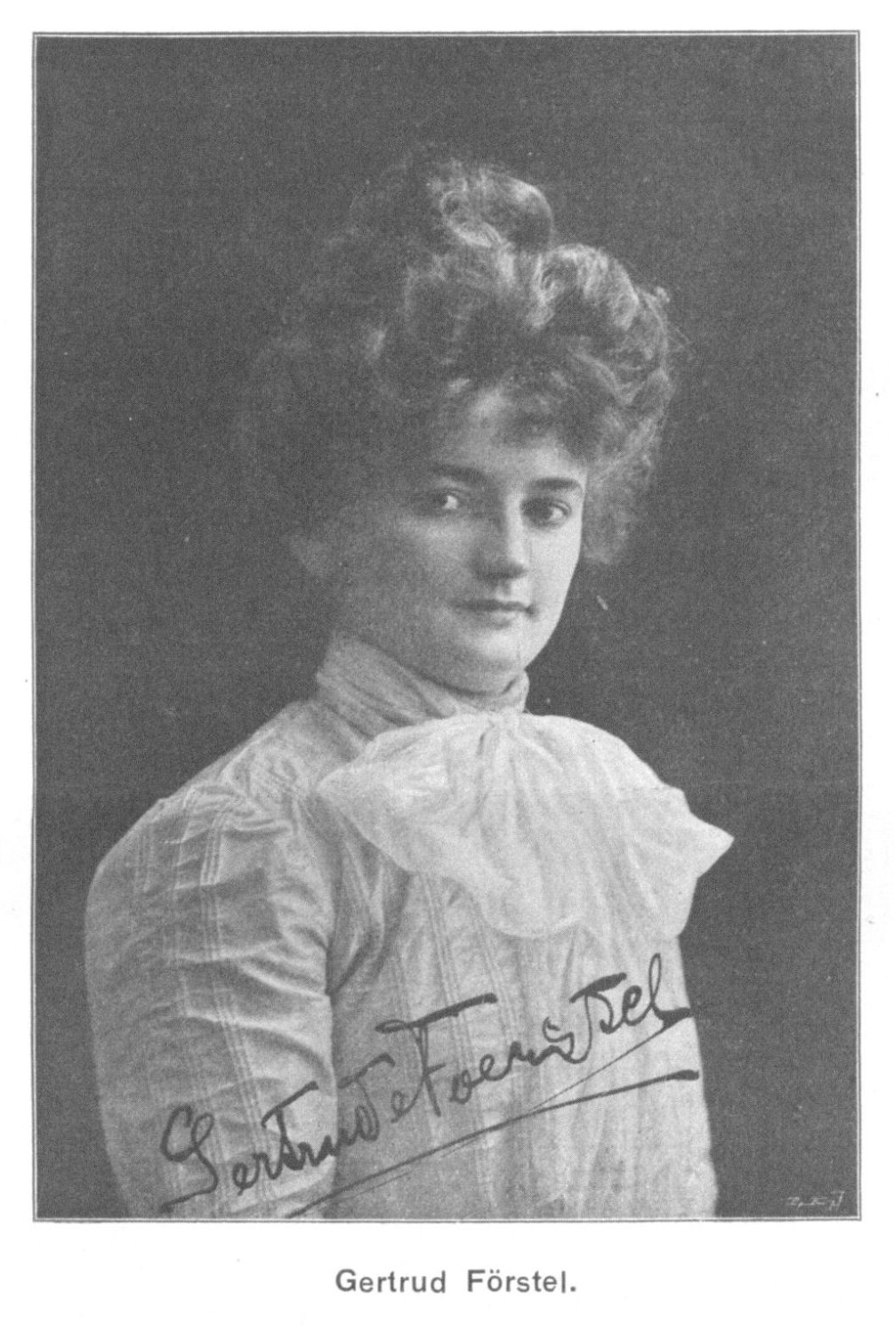 Portrait of Gertrud Förstel (1880-1950), German opera singer.